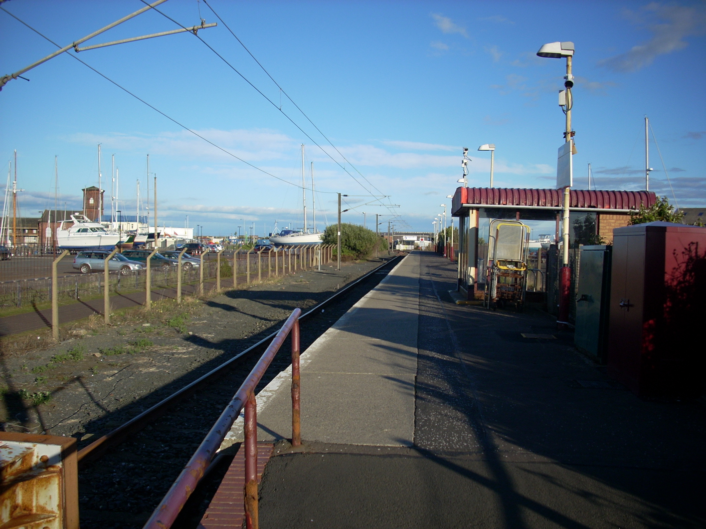 A view of the single platform at Ardrossan Harbour railway station in Ardrossan, North Ayrshire, Scotland. Photograph by Dreamer84, taken on 20 August 2007.